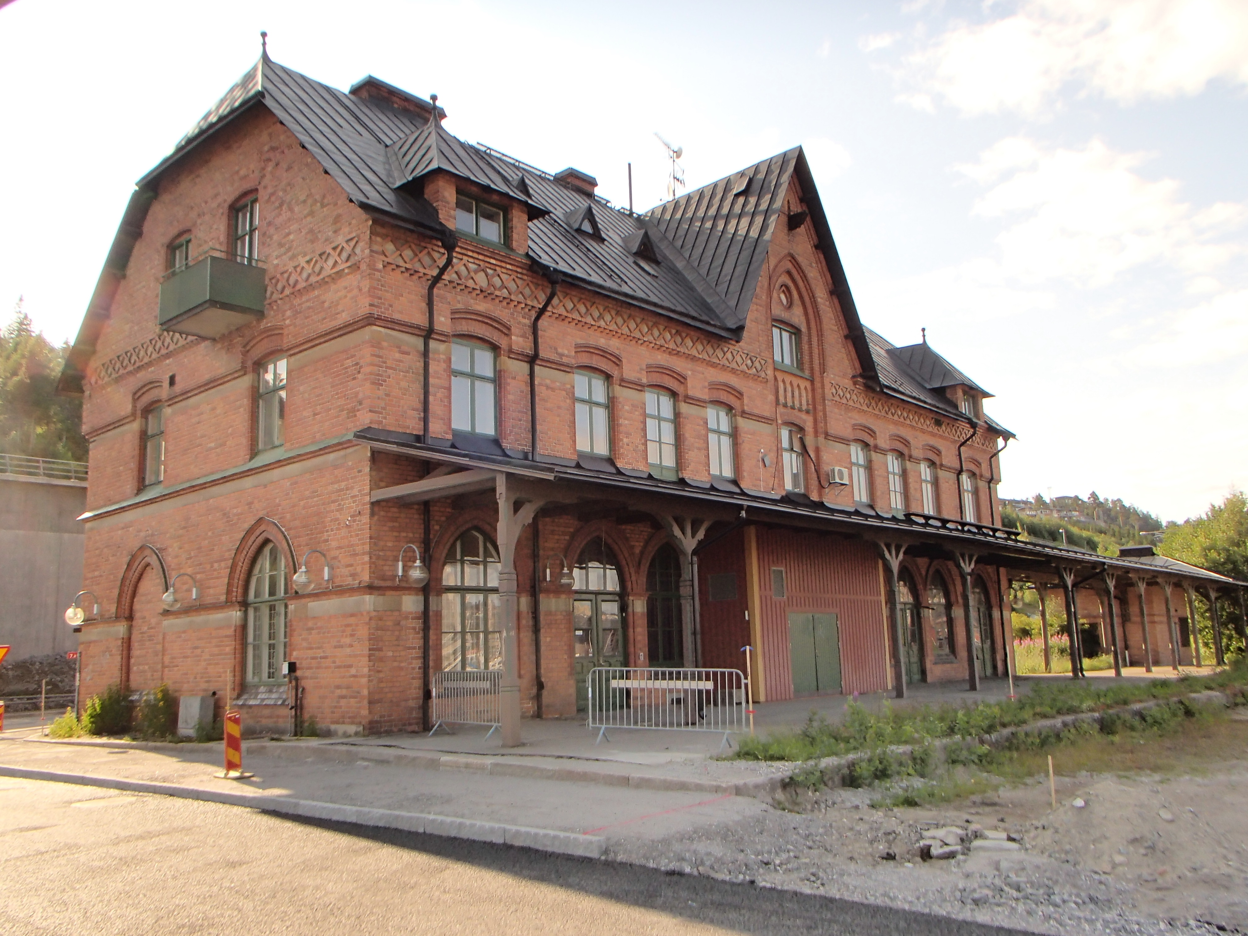 The former train station building of "Örnsköldsviks station" at Modovägen 52 in Örnsköldsvik